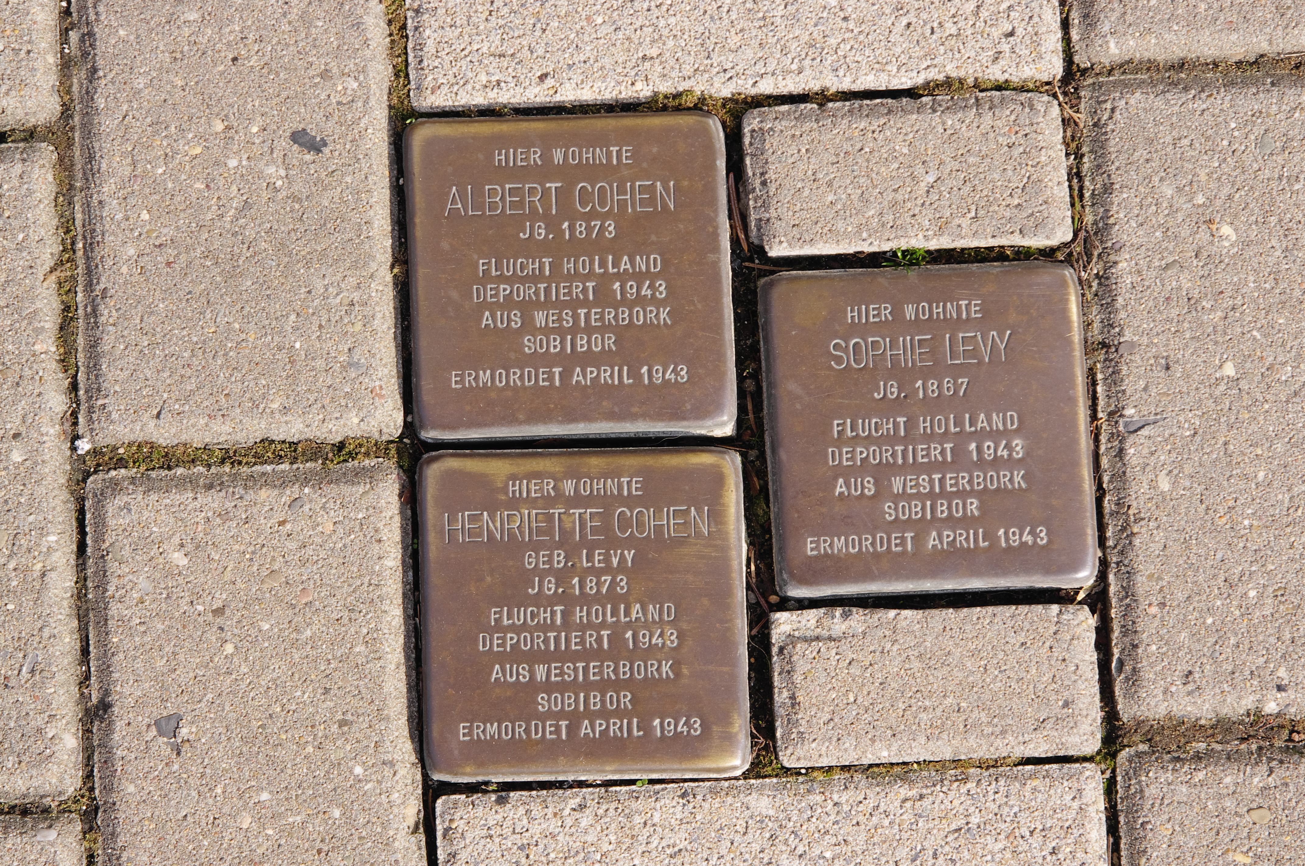 Stolpersteine at house Schüruferstraße 328 in Dortmund, Germany